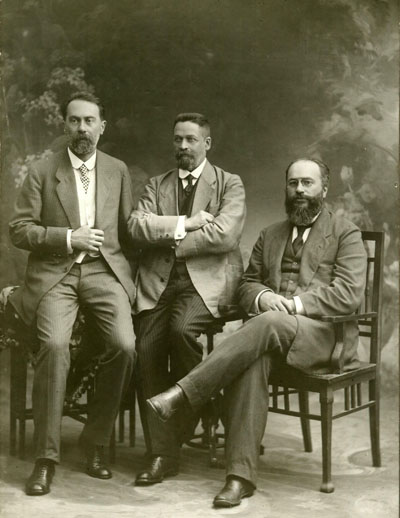 Konstantin Khrushchov, Andrey Shingarev, Aleksandr Krushov